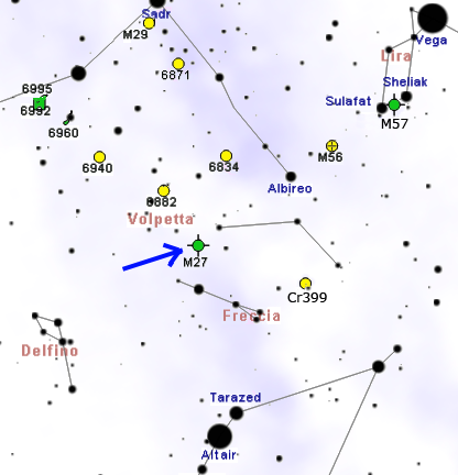 M27